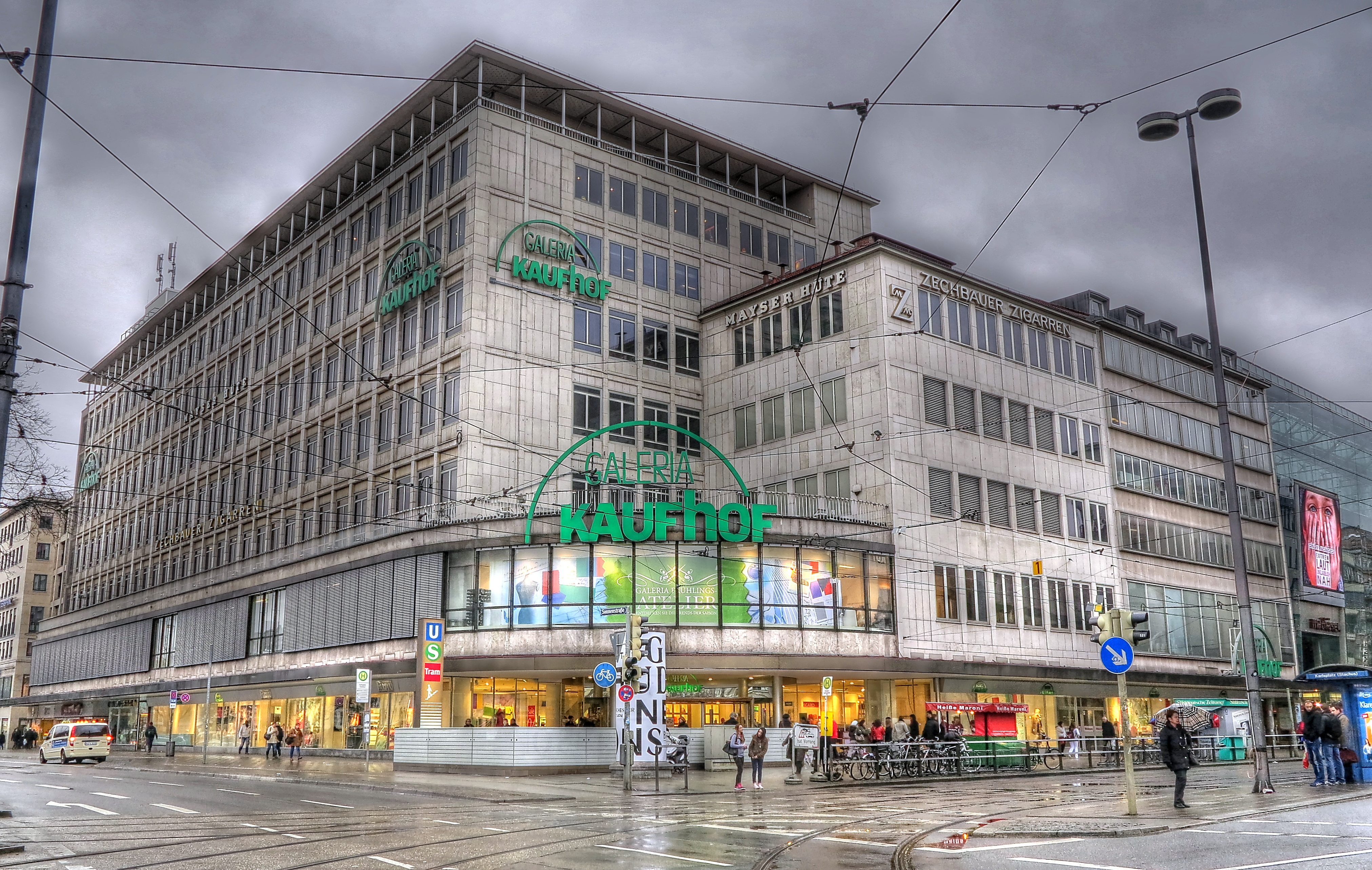 Deutschland, Bayern, München, Stachus, Kaufhof Galeria, HDR-Bild